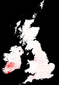 Surname distribution map for Hayes in Britain, Ireland and Mann